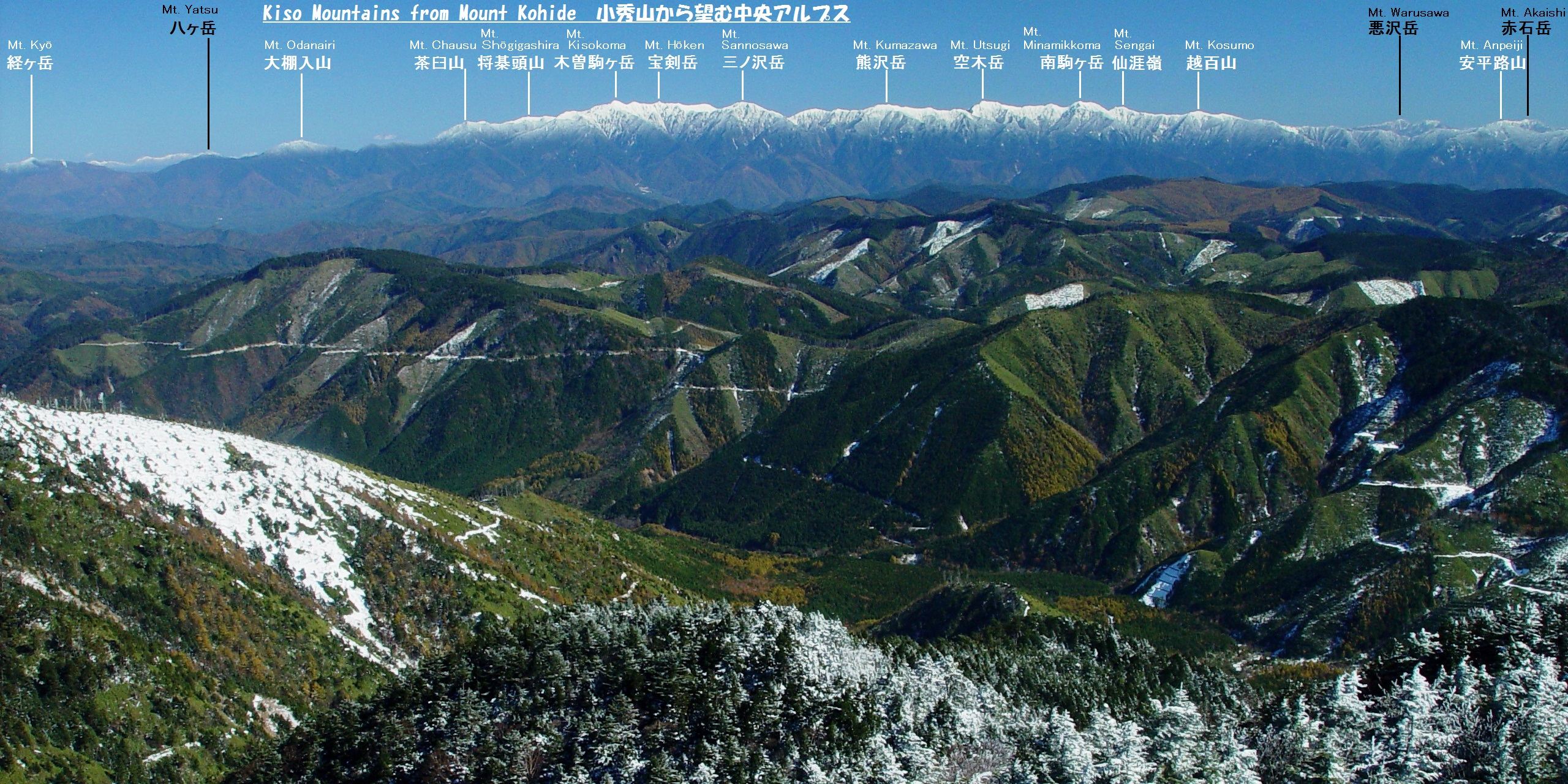 Kiso Mountains (Cyuō-Alps) from Mount Kohide